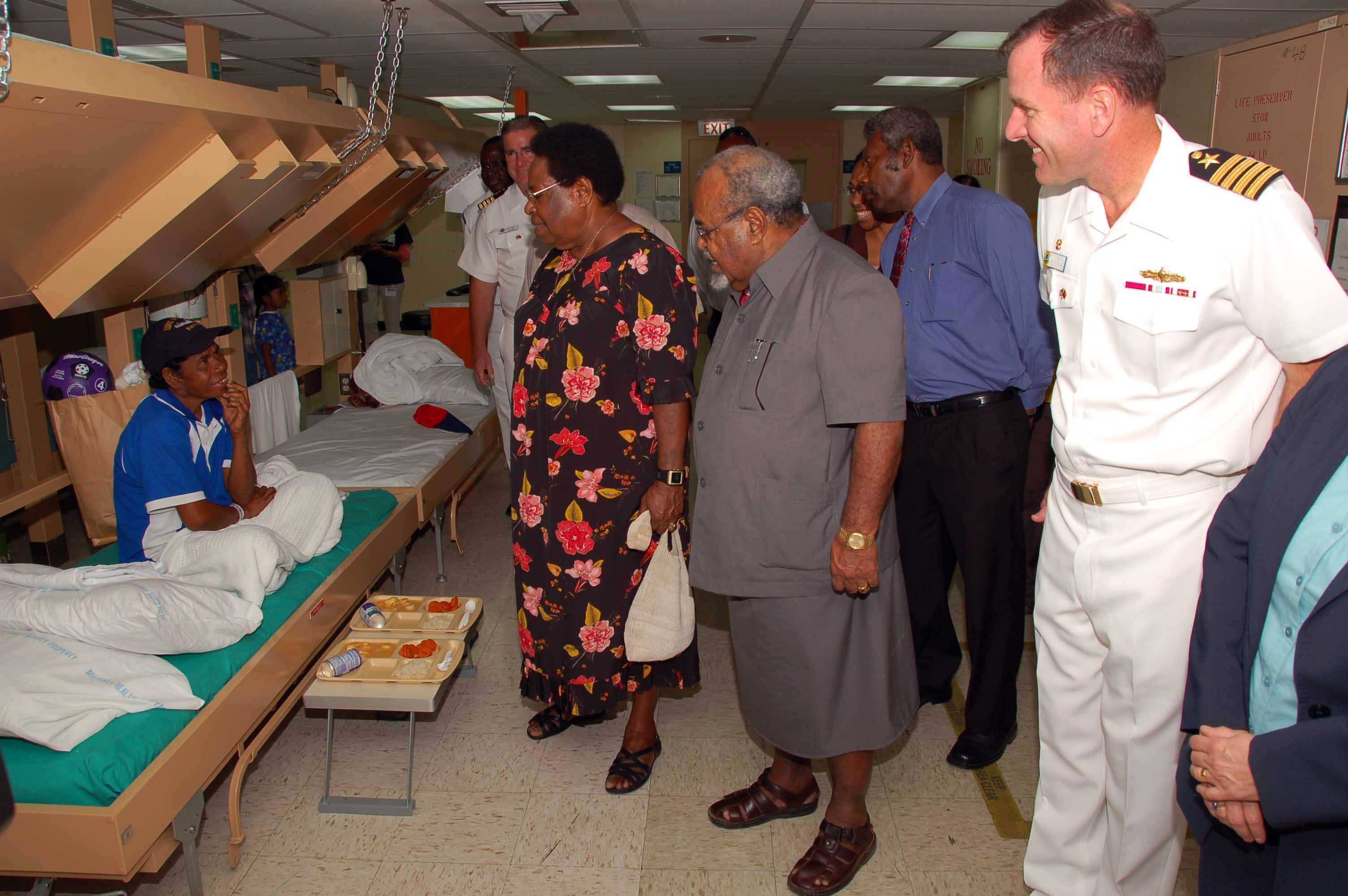 PORT MORESBY, Papua New Guinea (Aug. 15, 2008) Papua New Guinea Prime Minister the Right Honorable Sir Michael Somare speaks with a patient while touring the Military Sealift Command hospital ship USNS Mercy (T-AH 19). Mercy is the primary platform for Pacific Partnership, a four-month humanitarian mission providing engineering, civic, medical and dental assistance to Southeast Asia and Oceania. (U.S. Navy photo by Mass Communication Specialist 2nd Class Mark Logico/Released)